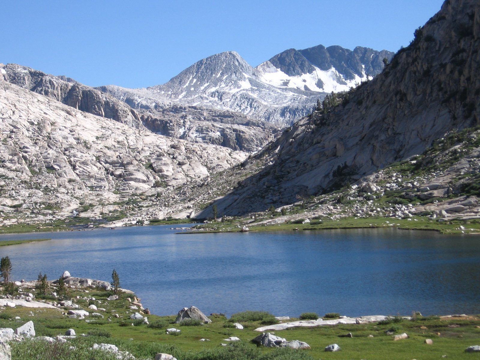 Evolution Valley